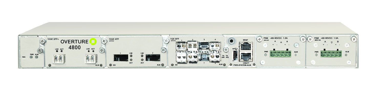 Product photo of the Overture 4800 10G Optical Ethernet Edge Device, used with permission from Overture Networks. Please